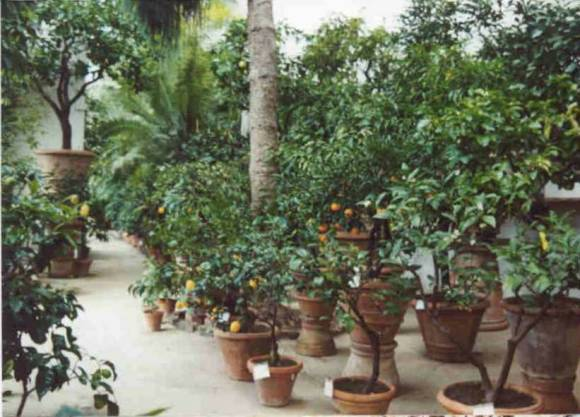 Potted citrus plants in the Orangery at the Orto Botanico di Firenze (Giardino dei Semplici di Firenze), Italy.